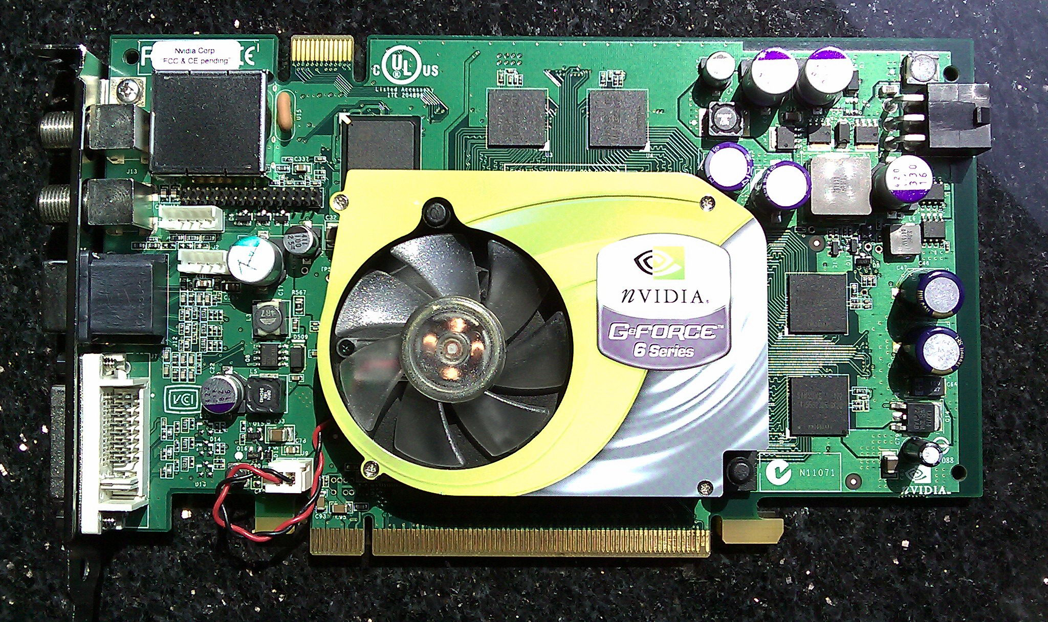 NVIDIA engineering sample graphic card